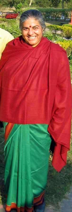 Vandana Shiva, noted environmentalist in 2007, at Rishikesh, Cropped from Original image to eliminate other people in the photograph.